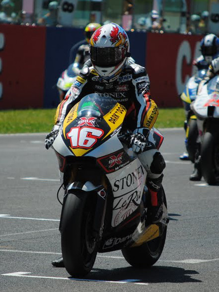 Jules Cluzel 2010 Mugello